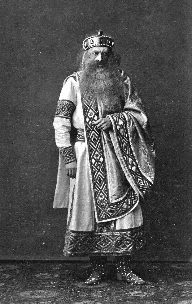 Photo of Russian opera singer Mikhail Sariotti (1830-1878)